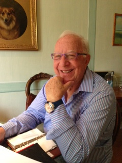 This is a photo of Harvey LIsberg taken in Manchester U.K. in June 2014. It is to be used with Harvey Lisberg's wikipedia page.